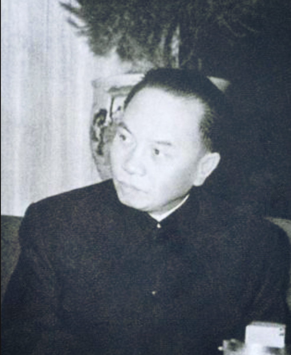 Trường Chinh: General Secretary of the Communist Party of Vietnam (1941-56, 1986)